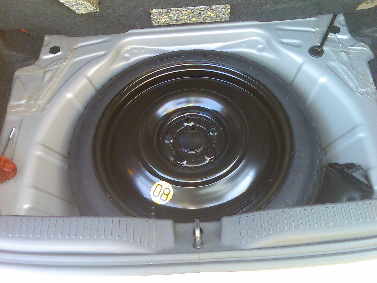 Emergency spare wheel space in the boot of a Toyota Auris. Note the yellow label forbidding its use at more than 80 km/h.